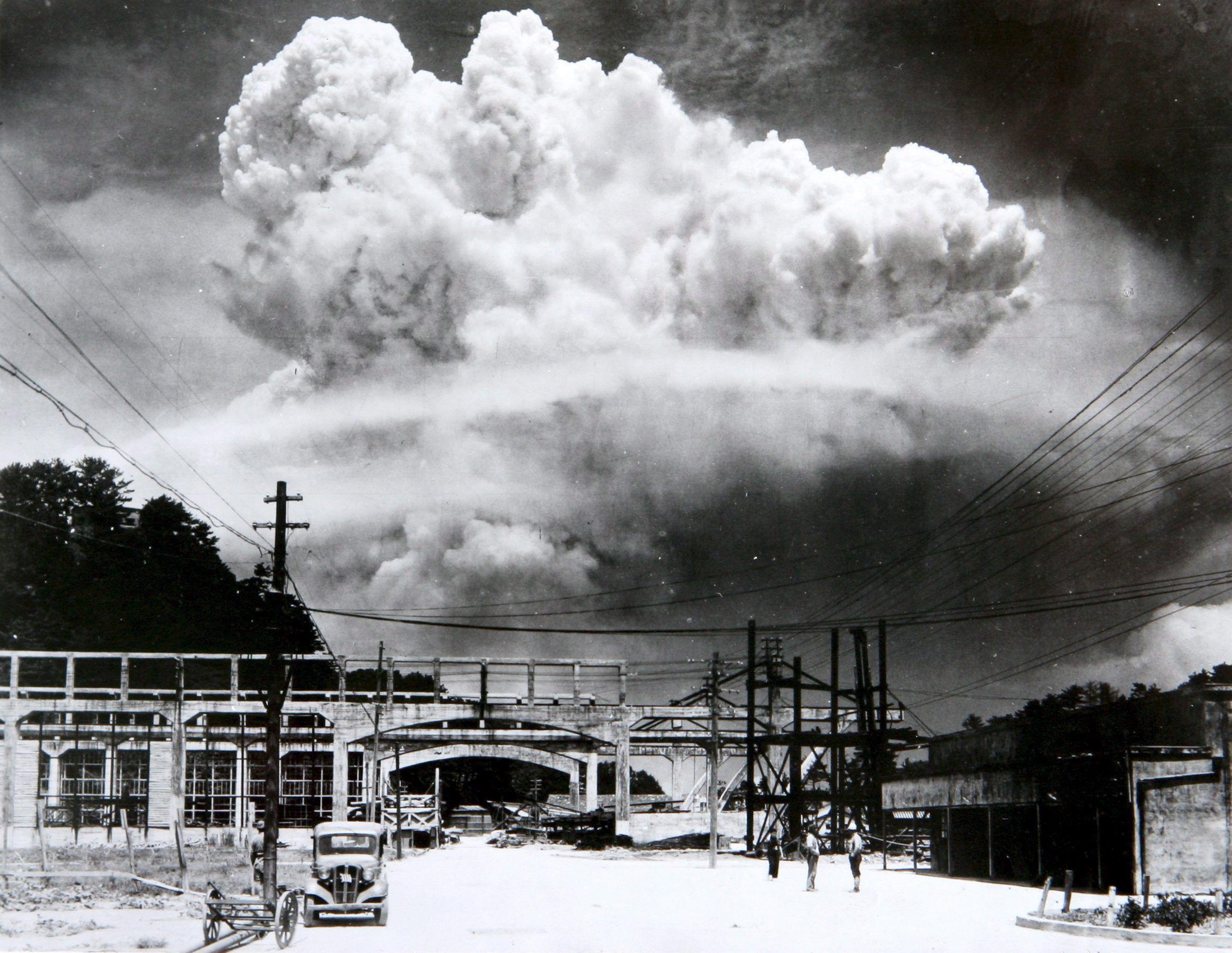 Atomic cloud over Nagasaki from Koyagi-jima by Hiromichi Matsuda